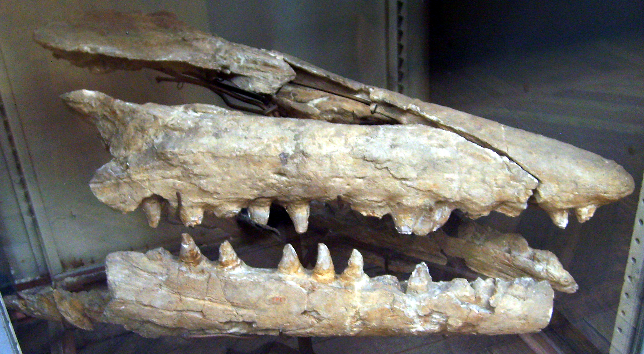 Hainosaurus or Tylosaurus (specimen MNHN 1896-15, formerly Mosasaurus gaudryi) jaw fragments, Muséum national d'histoire naturelle, Paris.